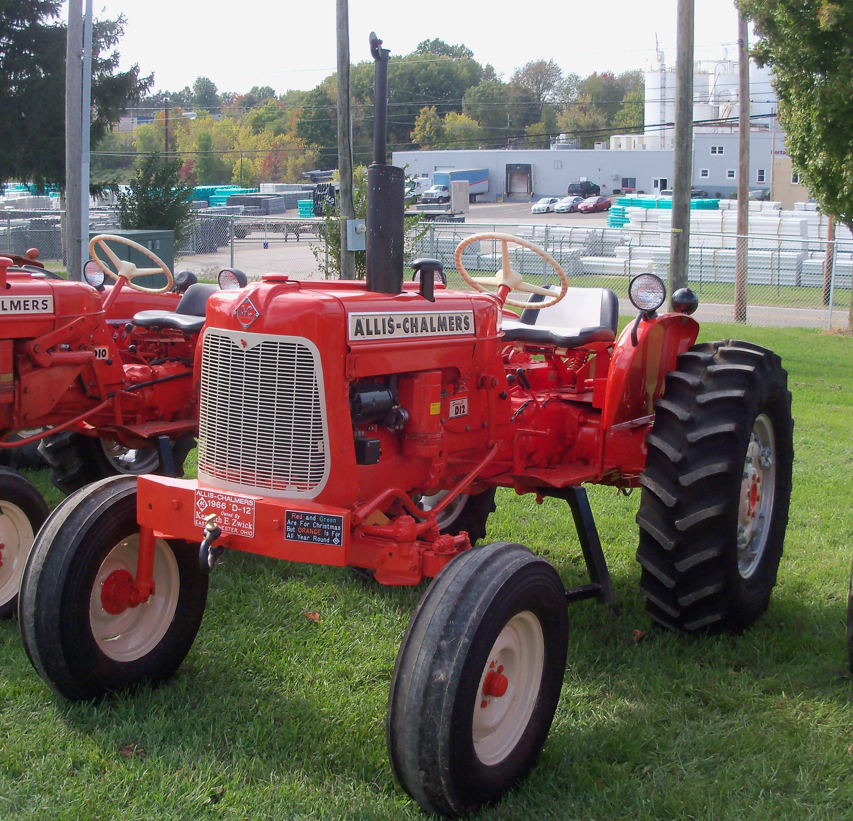 1966 Allis-Chalmers D 12 series II at a show in Carrollton, Ohio